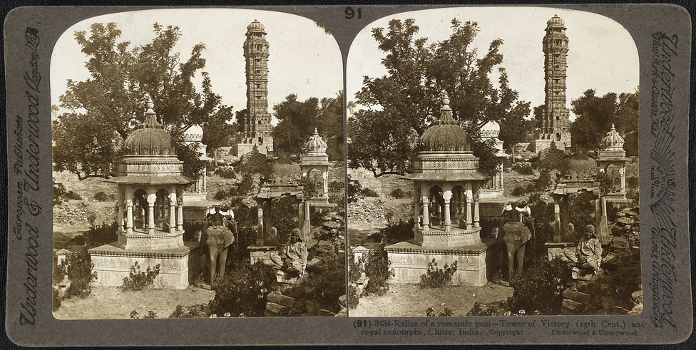 Stamaba views with other relics in Chittorgarh Fort, a steroscopic view